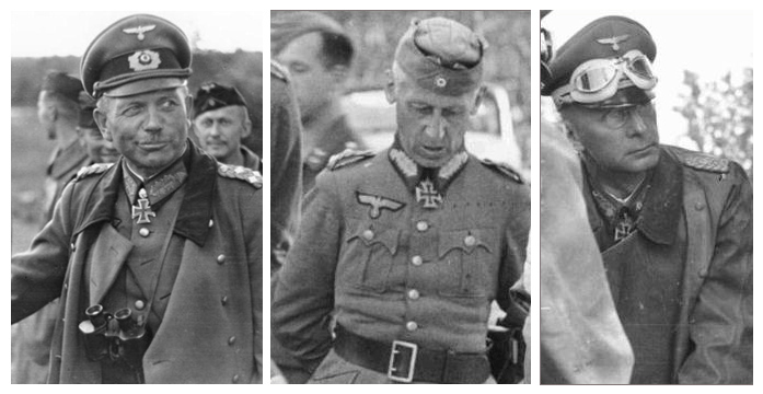 Composited picture of 3 German Panzer leaders: Guderian, Hoth and Reinhardt.